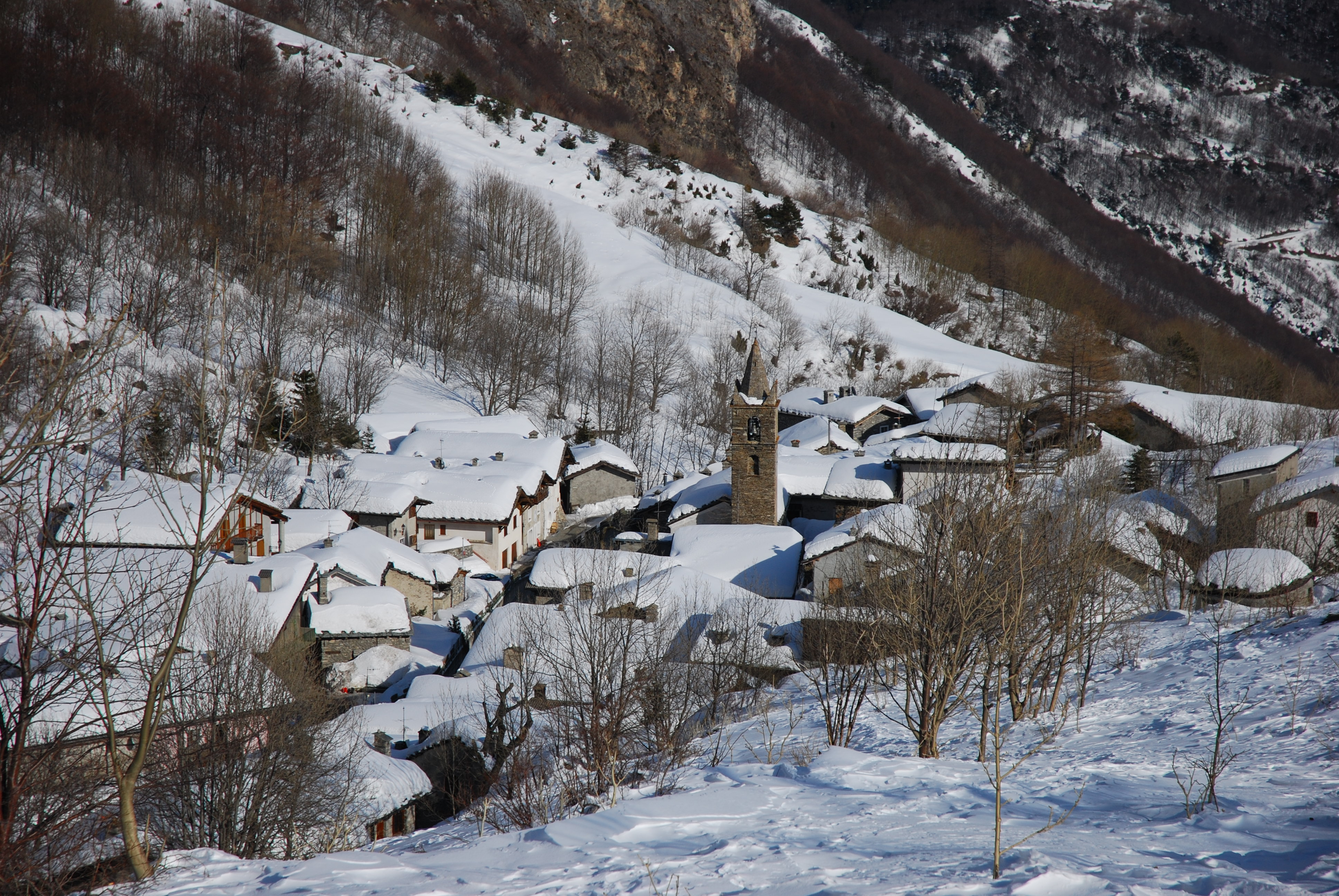 Moncenisio